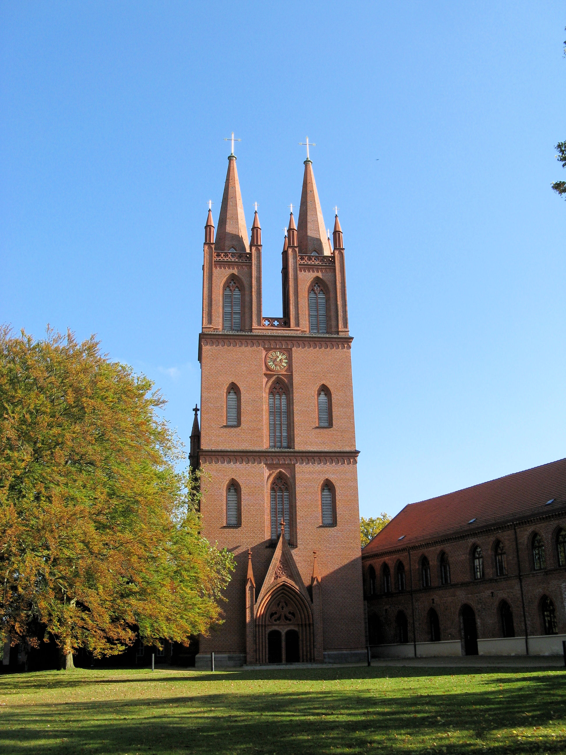 Church in the Monastery Dobbertin, disctrict Parchim, Mecklenburg-Vorpommern, Germany